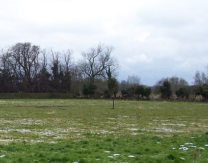 A lamp-post in Skaters Meadow, Cambridge